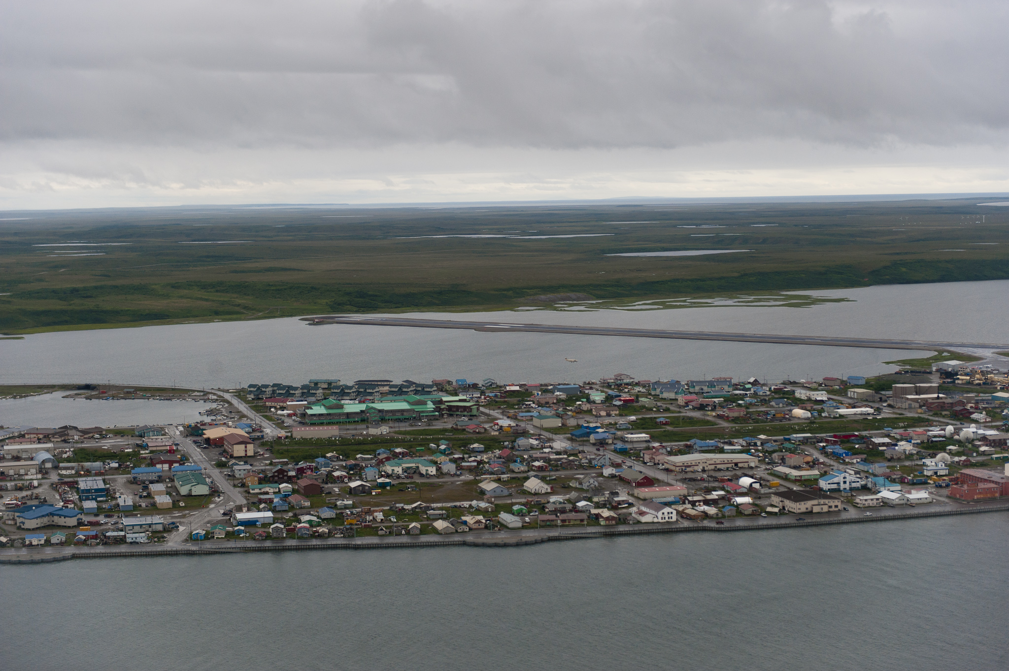 (NPS Photo by Neal Herbert)